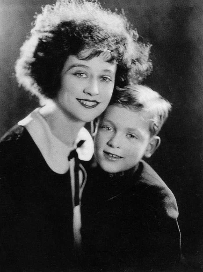 Portrait of Lee Morse, singer and actress, with her son. This photograph was taken well over 80 years ago. It depicts singer Lee Morse and her son, Jack. Both are now deceased. The picture is being used in good faith for the Wikipedia entry on Morse. The source for this photo is the web site The web site's owner, Ian House, has given permission to copy and use this photo (which was probably never copyrighted).